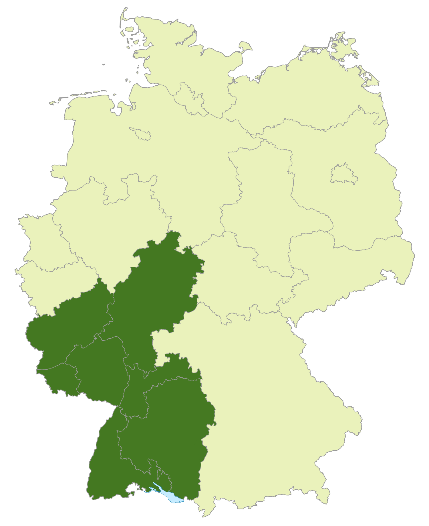 Germany's Regionalliga Südwest, which include football clubs from the states of Rhineland-Palatinate, Hesse, Baden-Wuerttemberg and Saarland.